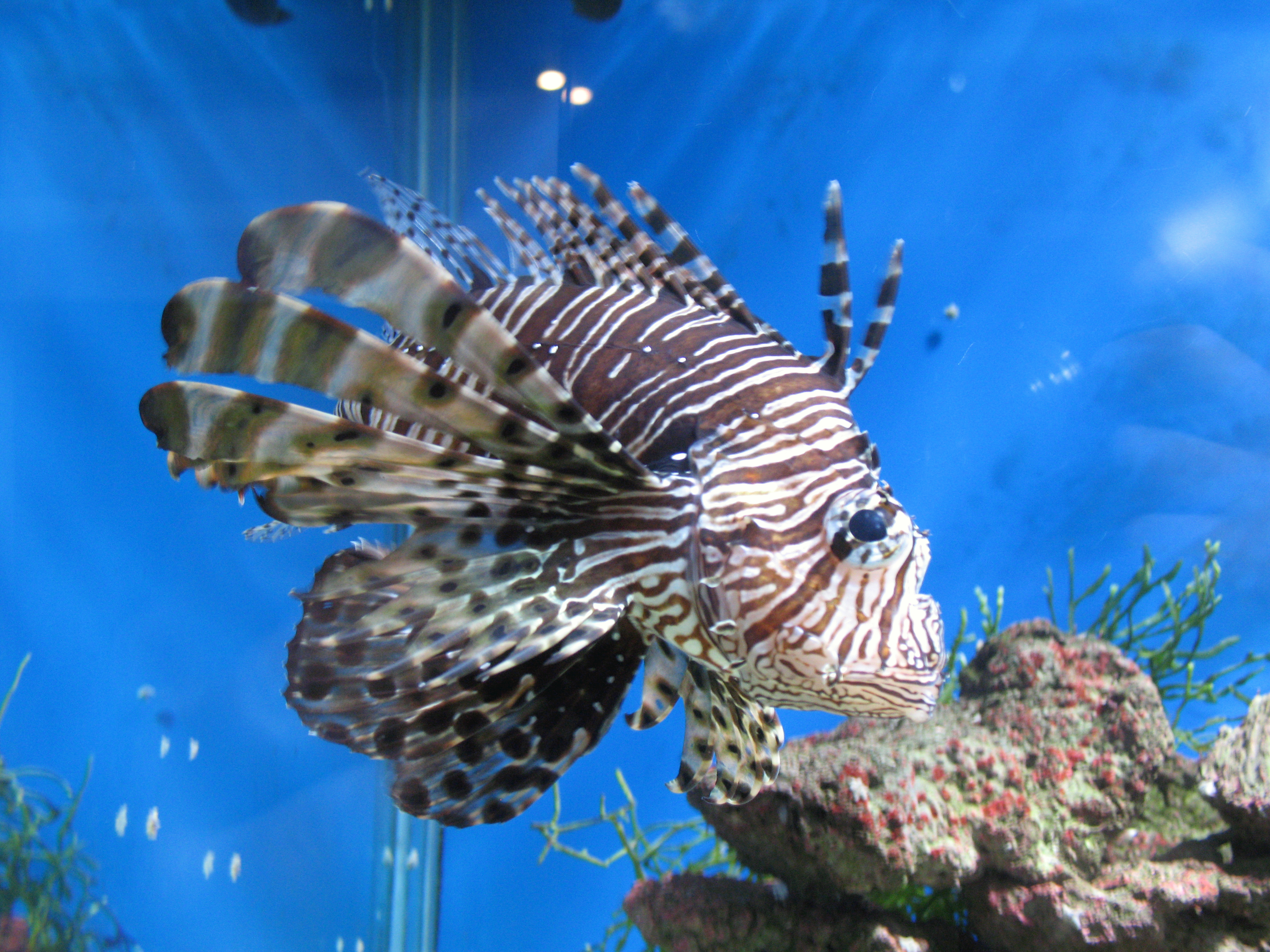 Red lionfish (Pterois volitans) in the zoo of Yekaterinburg, Russian Federation